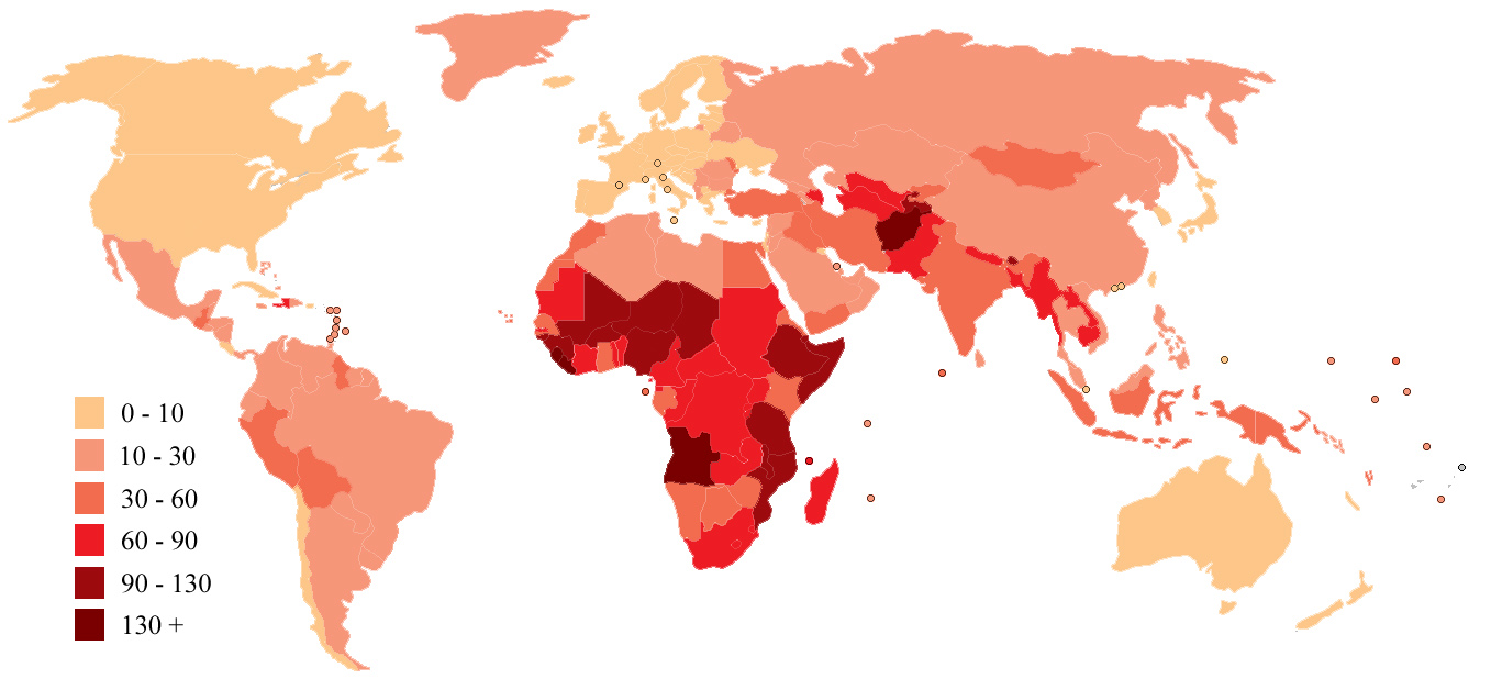 This map has been uploaded by Electionworld from to enable the Wikimedia Atlas of the World . Original uploader to was Black Velvet, known as Black Velvet at . Electionworld is not the creator of this map. Licensing information is below. World map indicating infant deaths in 1000 births. I created it in an image processing program, off the blank world map template that can be found on Wikimedia Commons. I used information from the 2006 World Factbook (CIA) to make the map. Note that the 2006 edition draws data from different years in different countries ca. 2000.